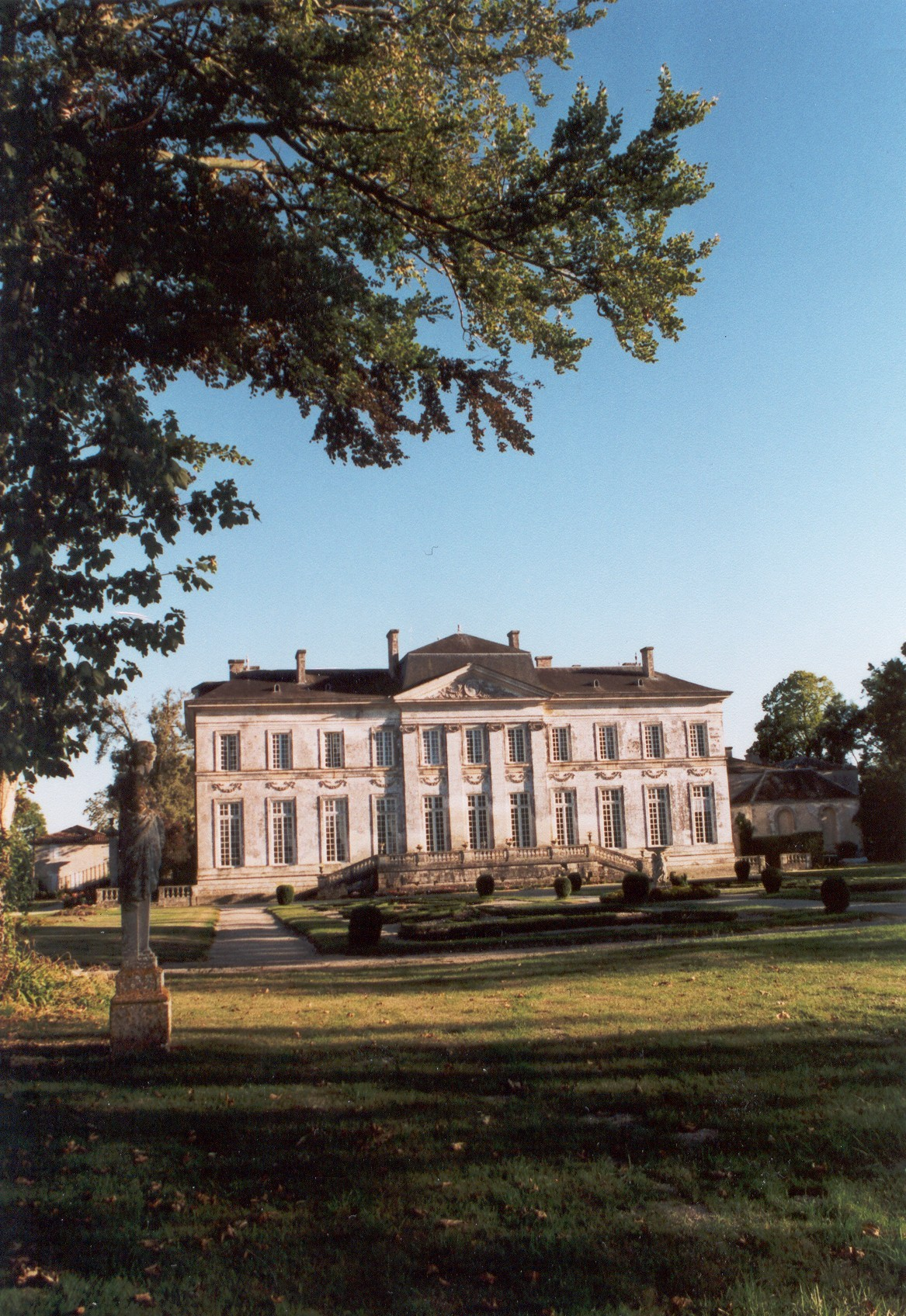 Buzay North Wall